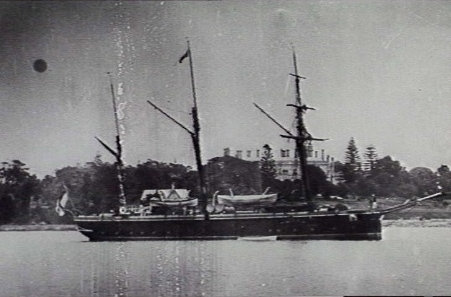 AWM caption : "SYDNEY, NSW. 1888. STARBOARD SIDE VIEW OF THE SCREW GUNBOAT HMS RAVEN RIGGED AS A BARQUENTINE."